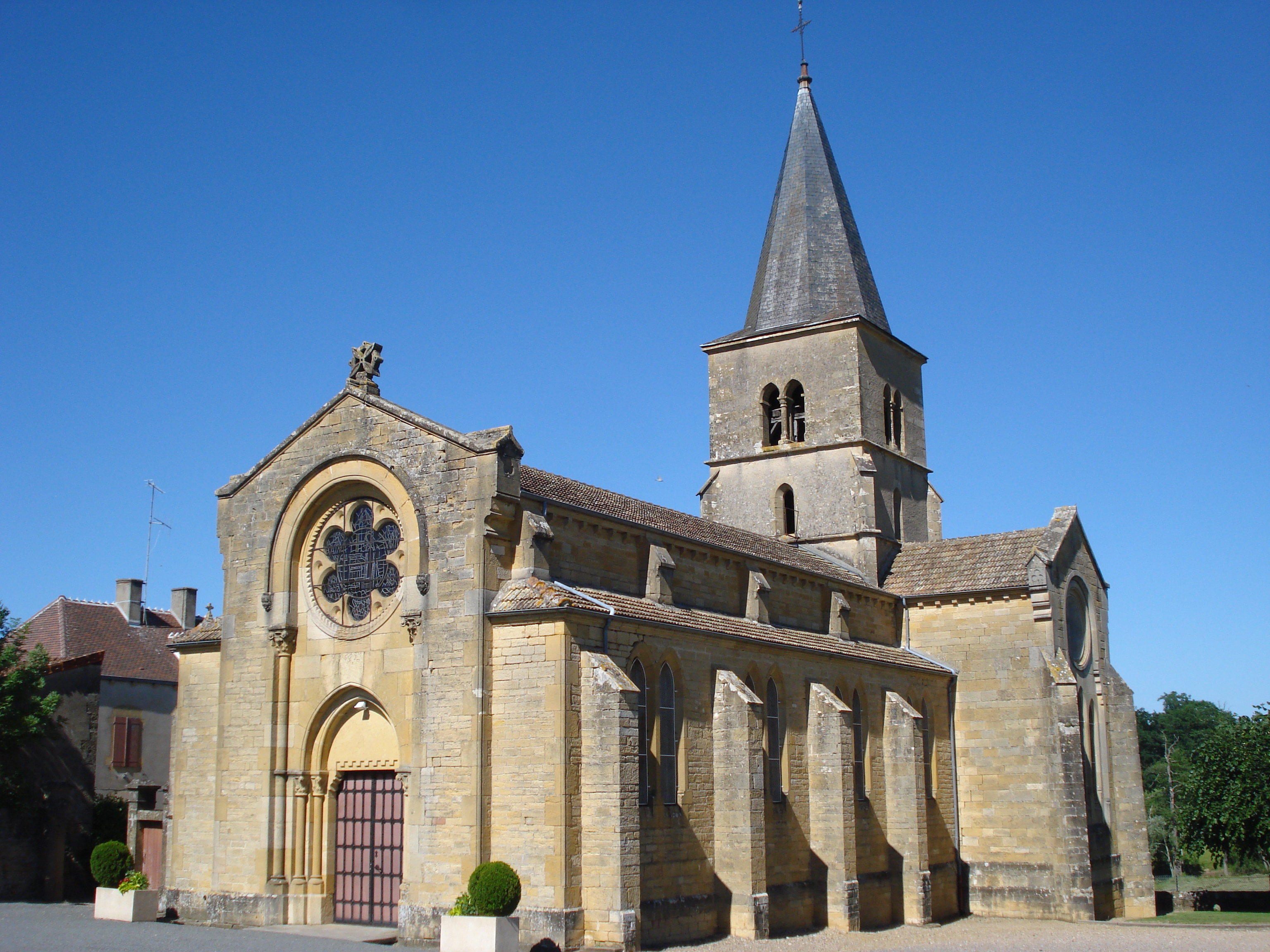 Saint-Vincent-Bragny, church St.Vincent at Saint-Vincent